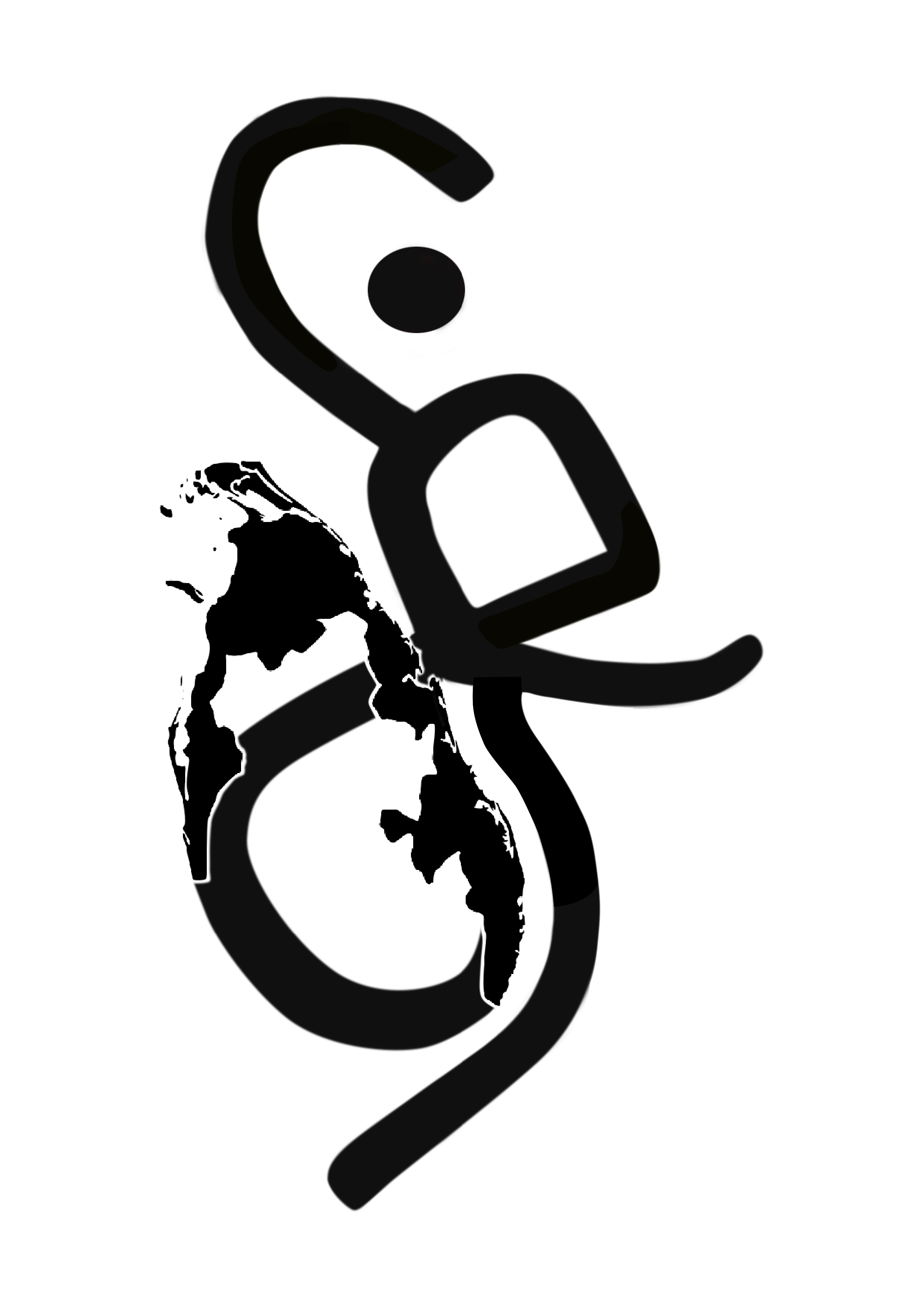 tamil